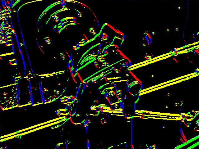 The original image was taken by me in Manchester in the Museum of Science and Industry in Manchester. This was obtained using a Java edge detection program I wrote. If you want the source code leave me a message.